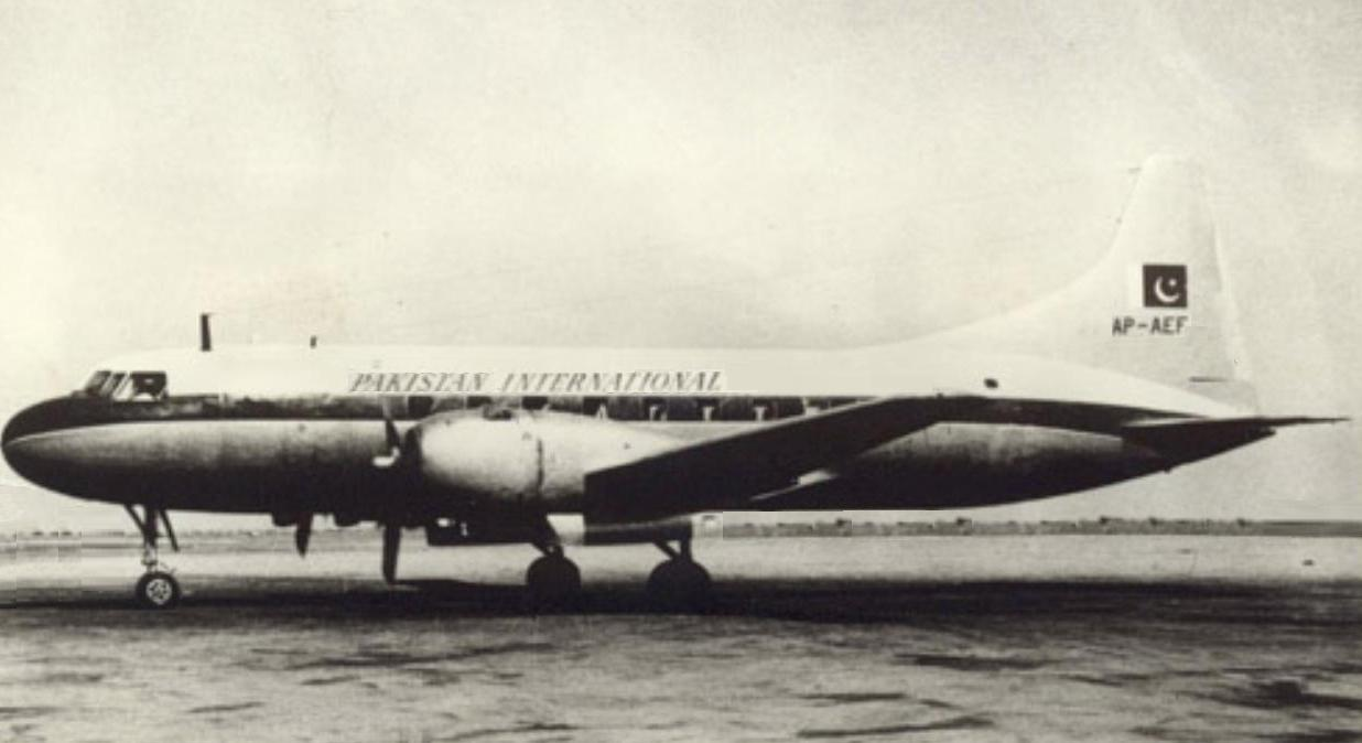 Pakistan International Airlines Convair CV-240 photographed in Pakistan in the later 1950s.